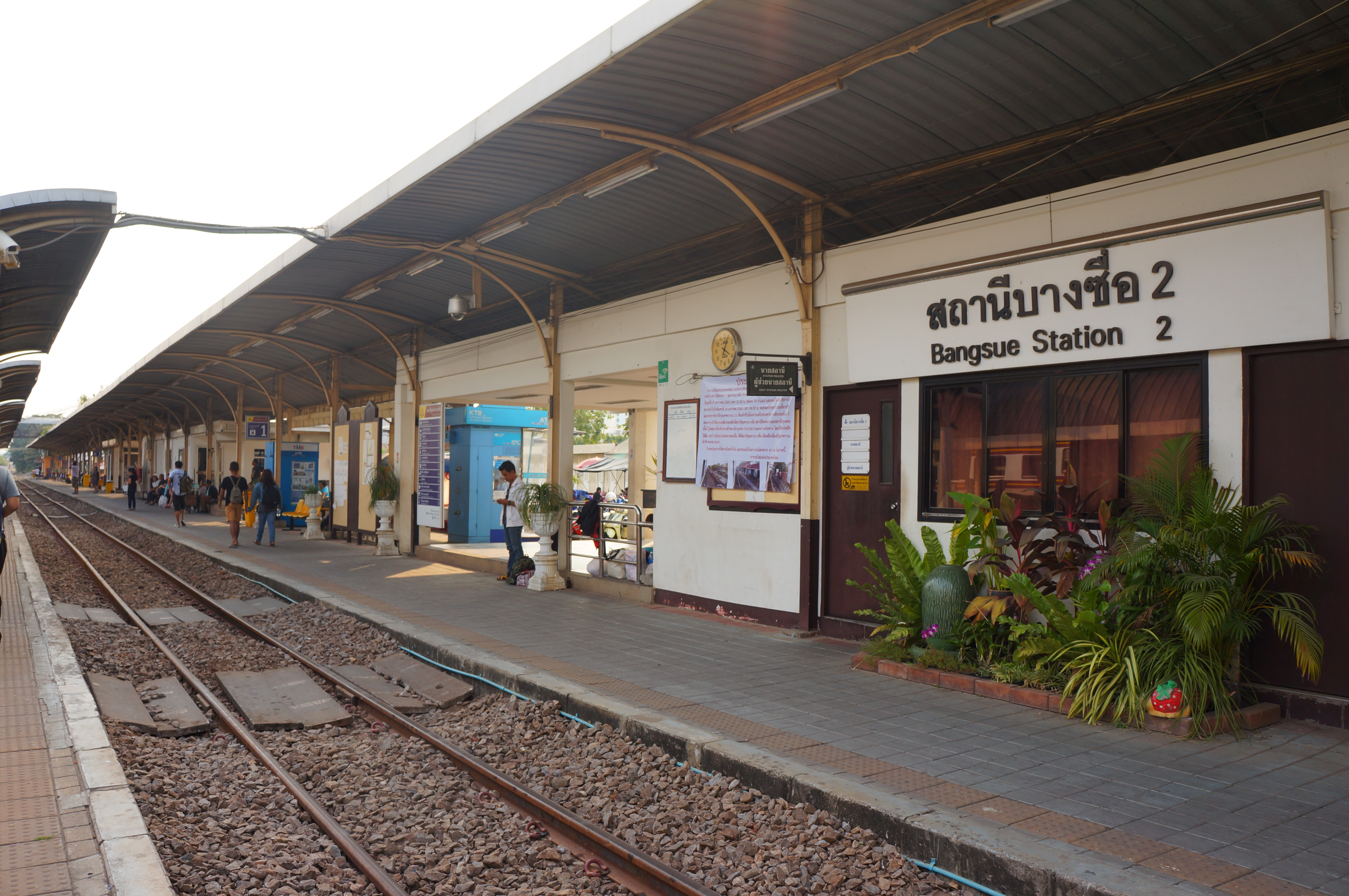 201701 Platform 1,2 at Bang Sue Junction. Bang Sue Junction Railway Station is the official name.